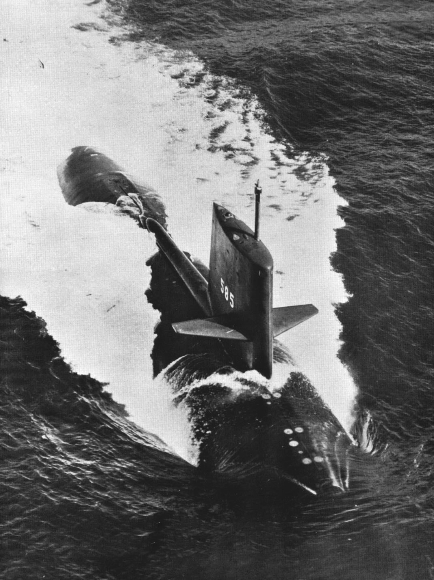 The U.S. Navy submarine USS Skipjack (SSN-585) underway, circa in 1965.